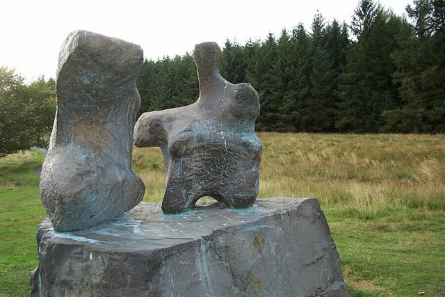 Glenkiln